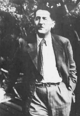 Original text: Source